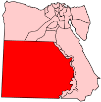 Map of Egypt: showing the large New Valley Governorate — the old Al Wadi al Jadid governorate . Made by User:Golbez based on PD maps.